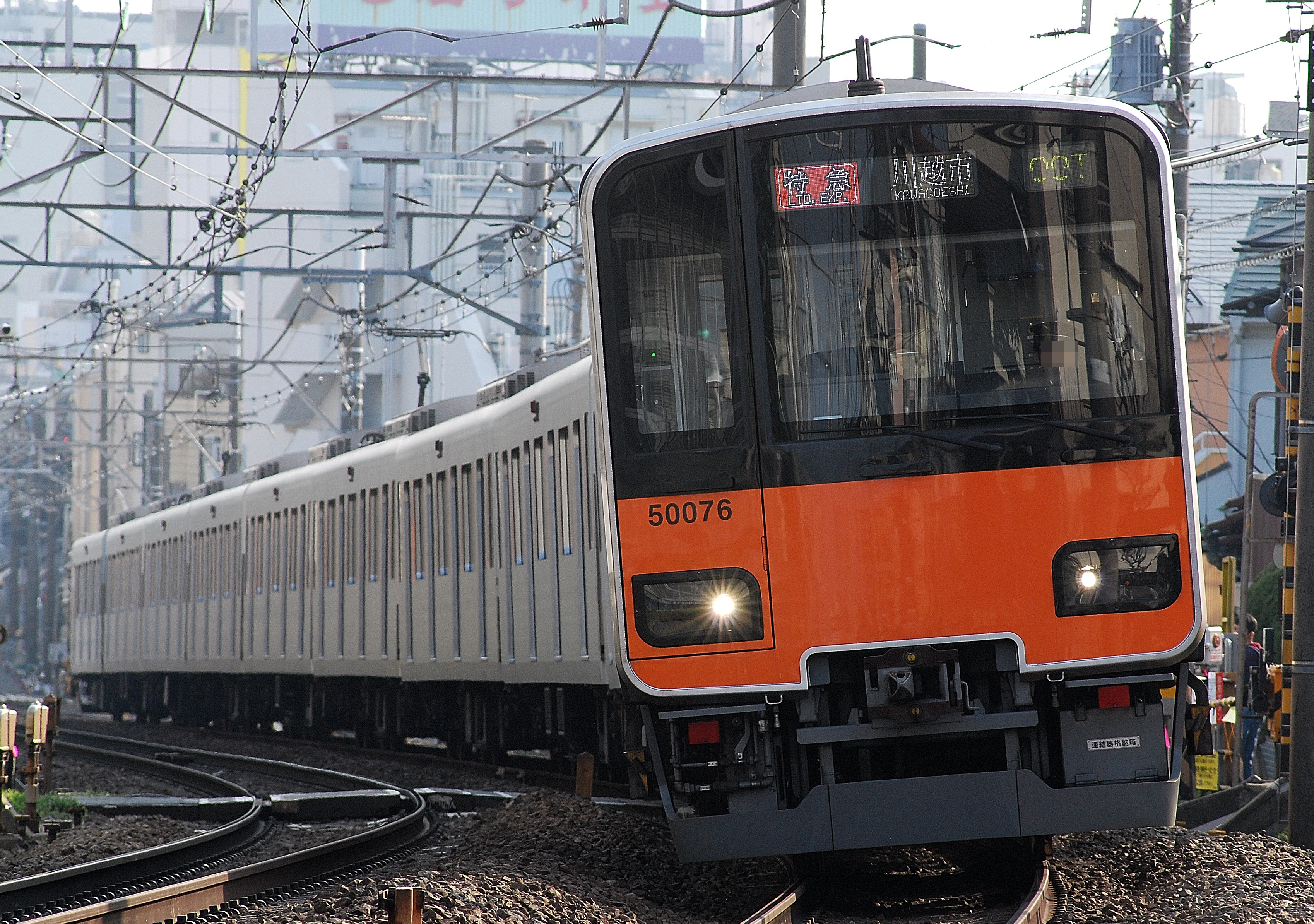 Tobu Railway 50070 series EMU set 51076 on the Tokyu Toyoko Line